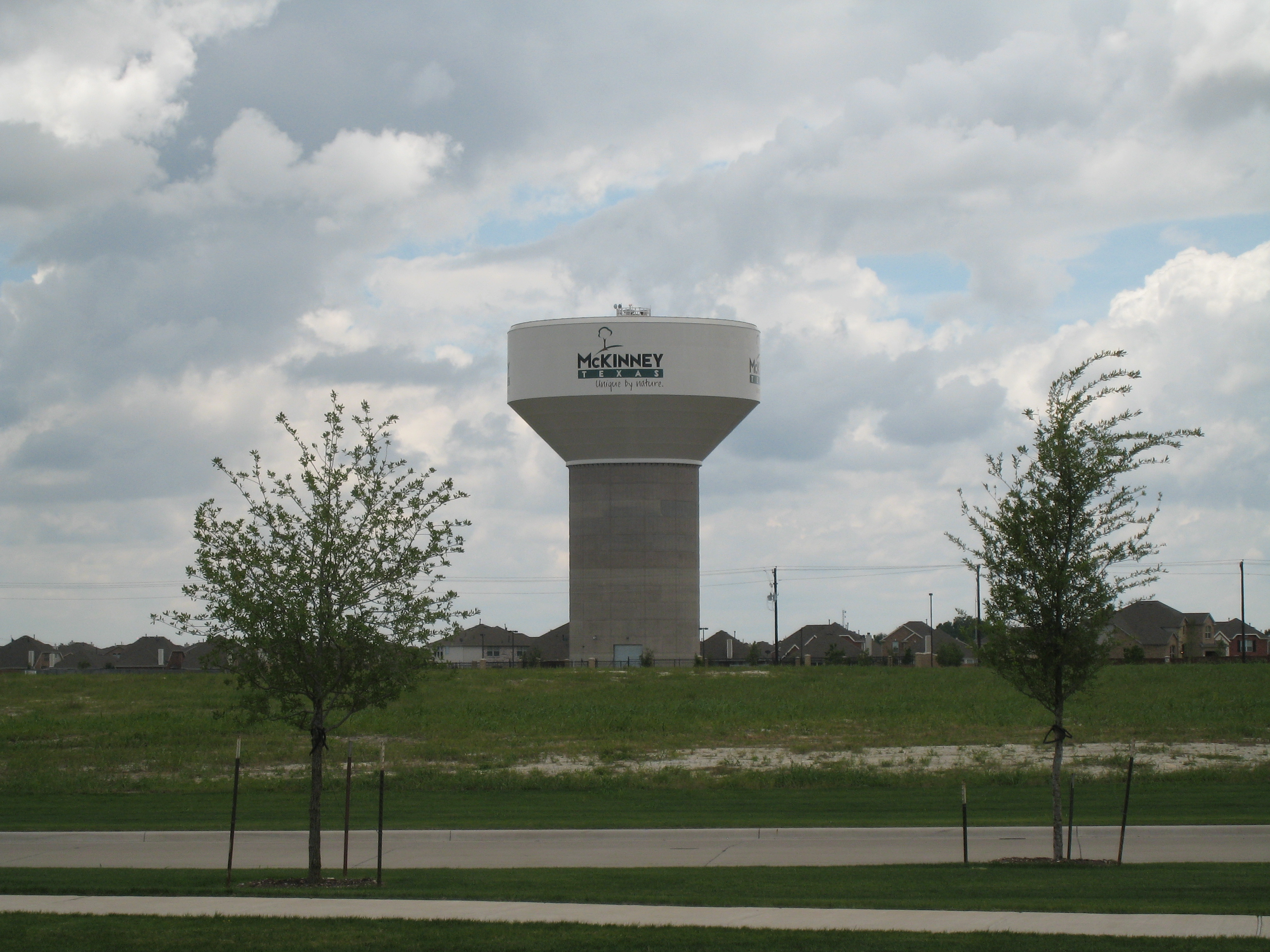 McKinney, Texas water tower